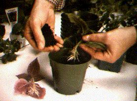 GTI Aeroponic Rooting System 1983